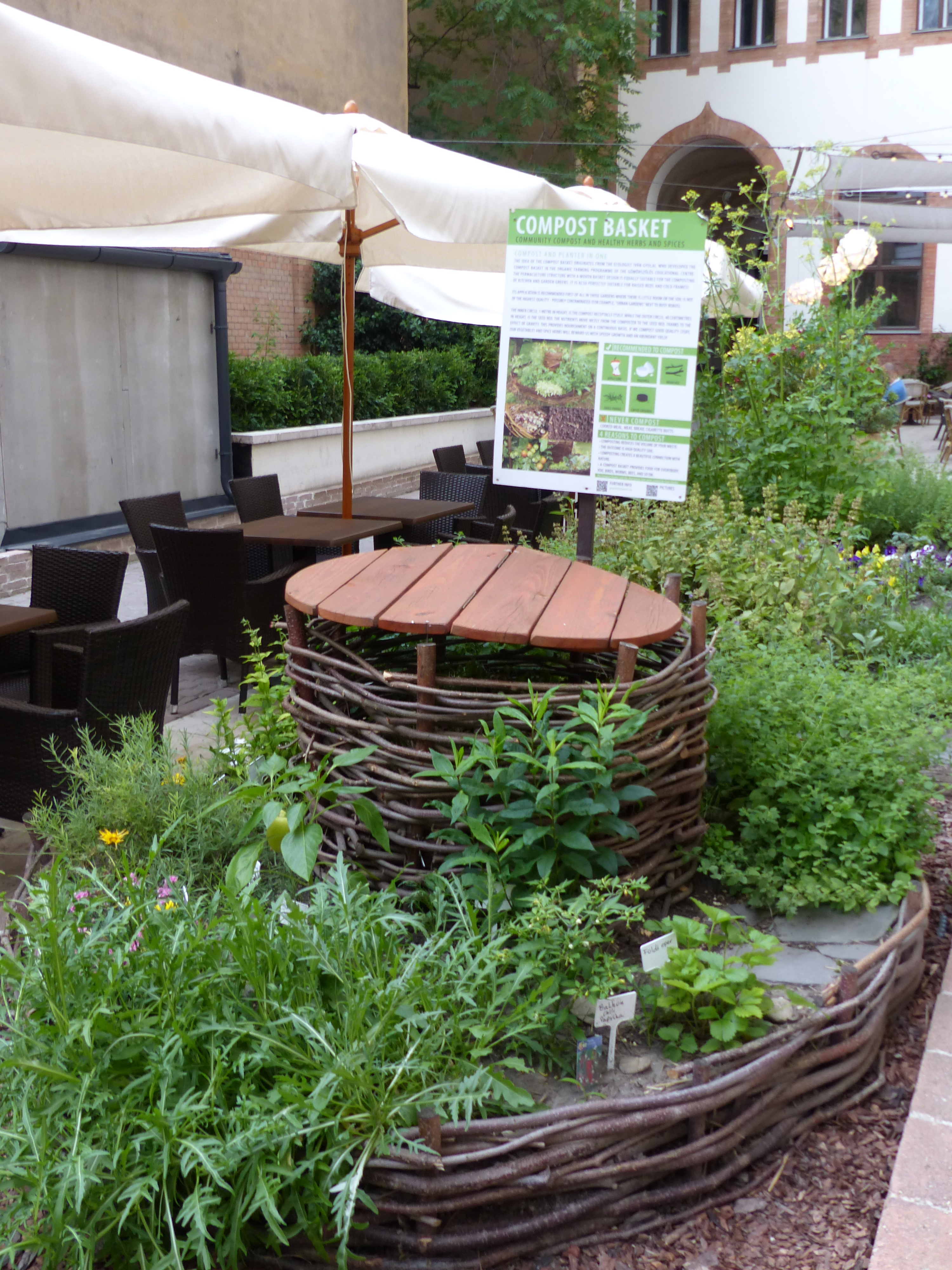 Compost Basket (Komposztáló kas). Taken on Friday, 17th of June, 2016. Nagymező street 52, Budapest, Hungary. HQ pf Prezi Corp. The garden. The idea of Compost Basket comes from Gyulai Iván. He invented and used it in the Gömörszőlős Educational Center. The inner circle is 1 meter deep. This is the place where compost material are put in. Under this is the outer circle, 40 cm deep. Here the nutrients come down.